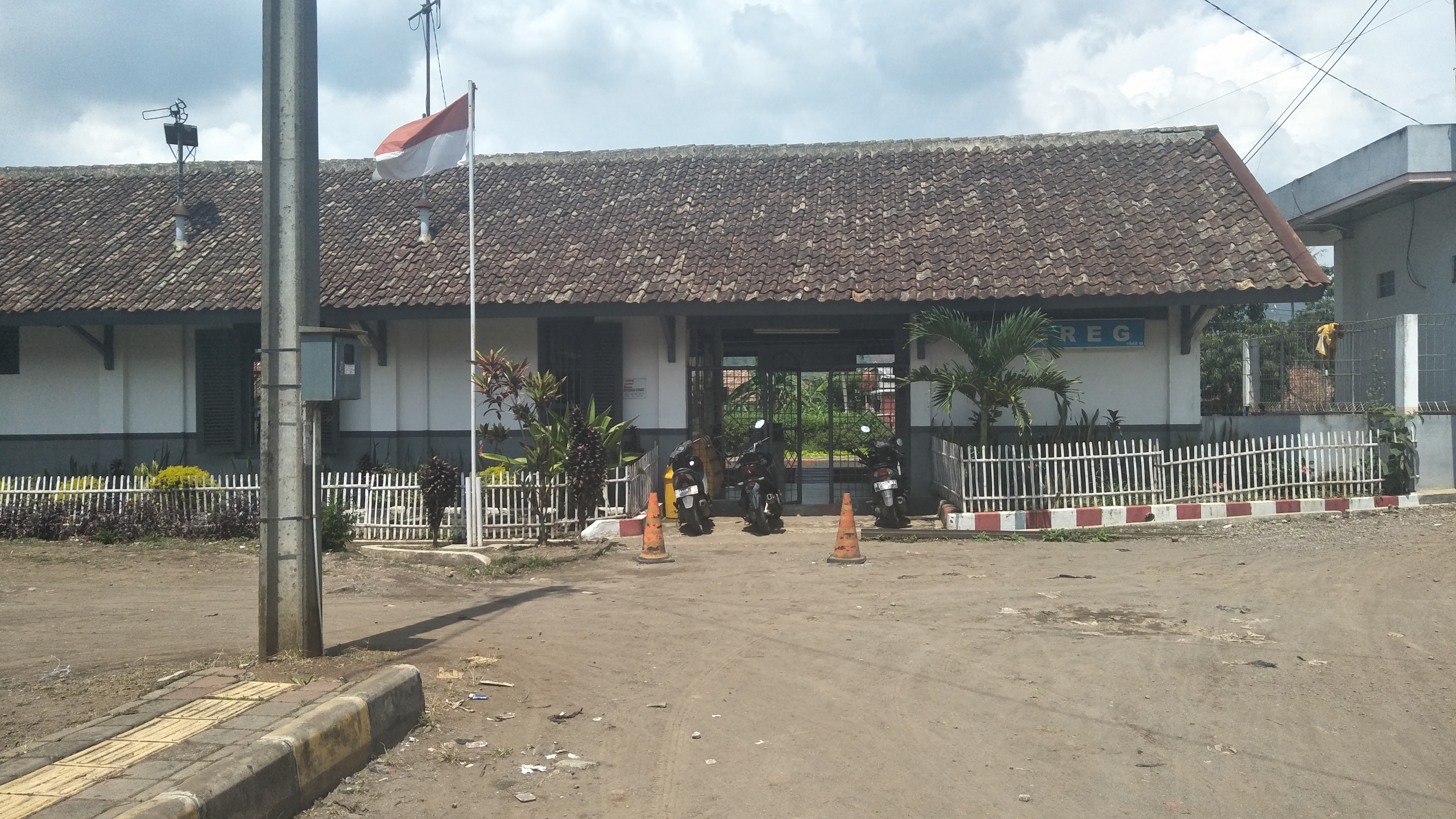 Nagreg railway station